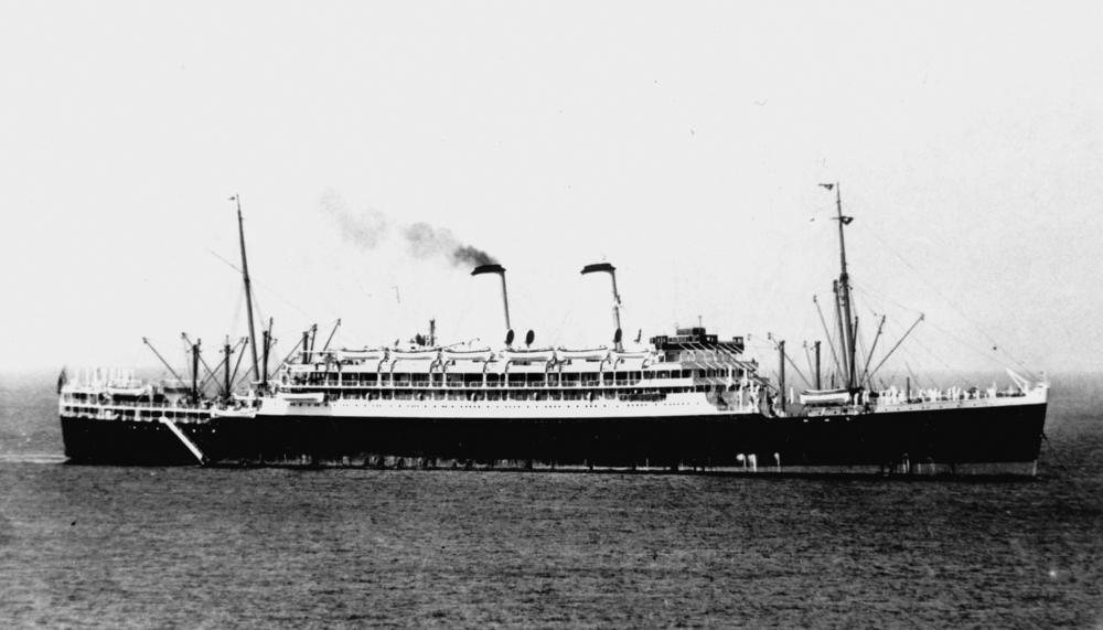 Orontes (ship)